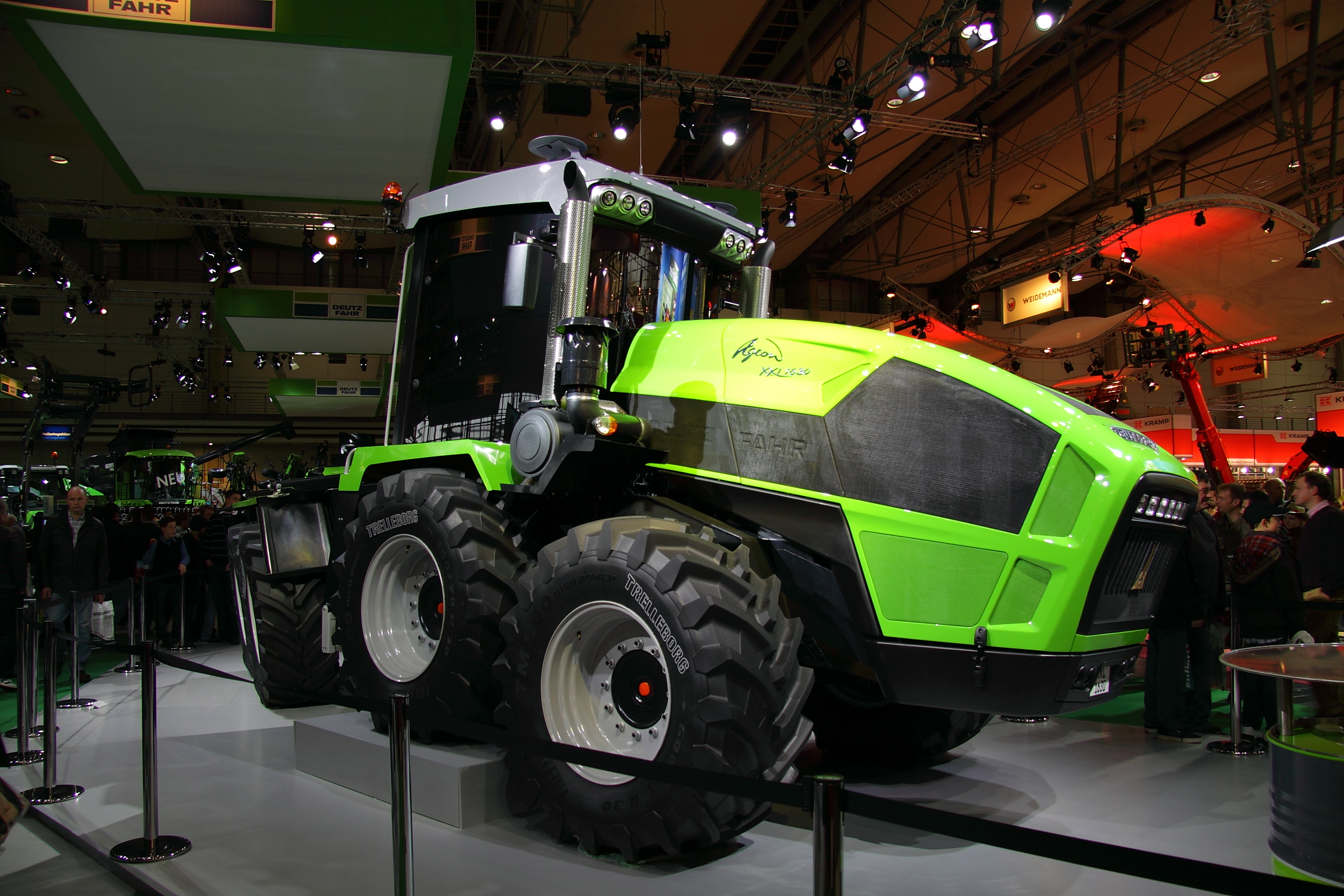 Deutz-Fahr Agro XXL tractor prototype on the German AG Fair Agritechnica 2009 in Hannover.